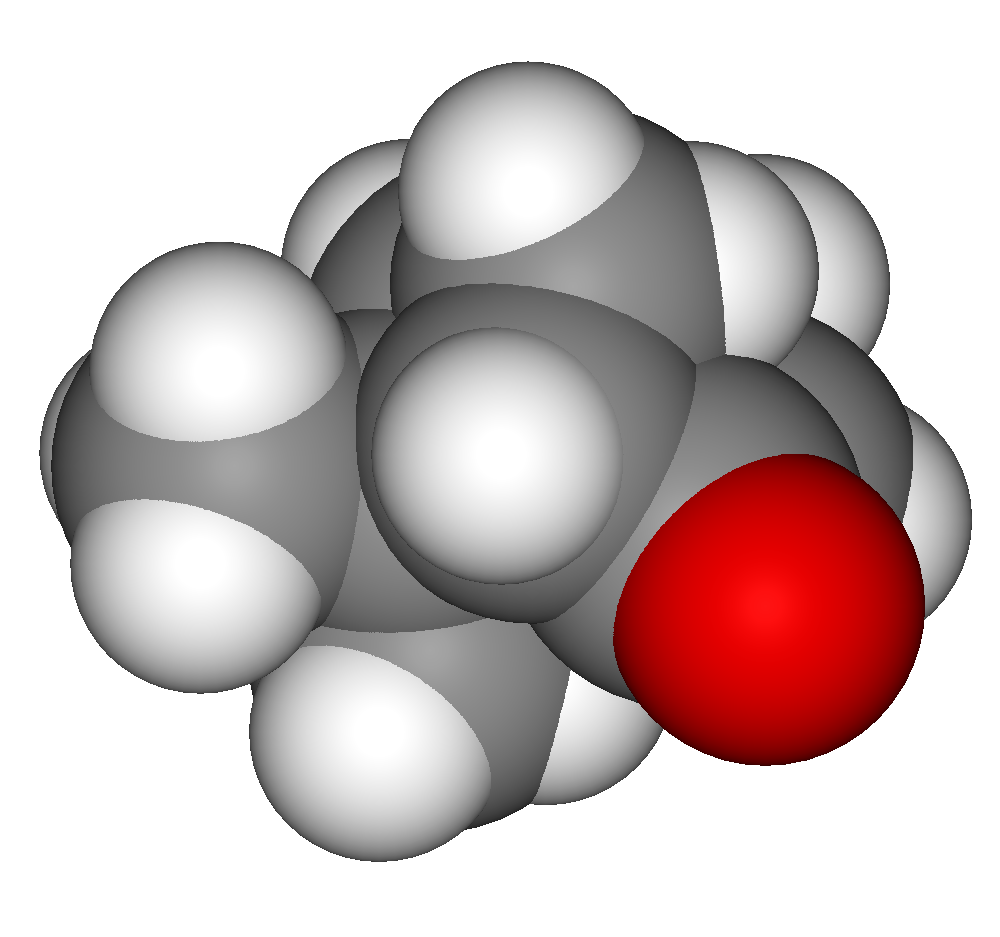 chemical structure of D-verbenone